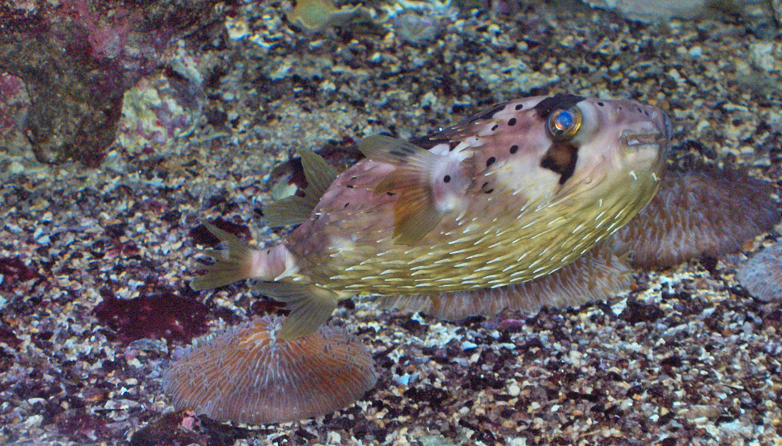 Spotfin burrfish (Chilomycterus reticulatus); Musée Océanographique de Monaco